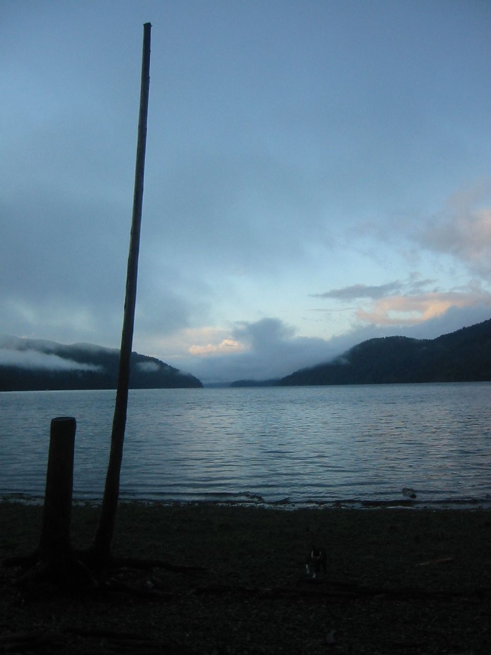 British Colombia